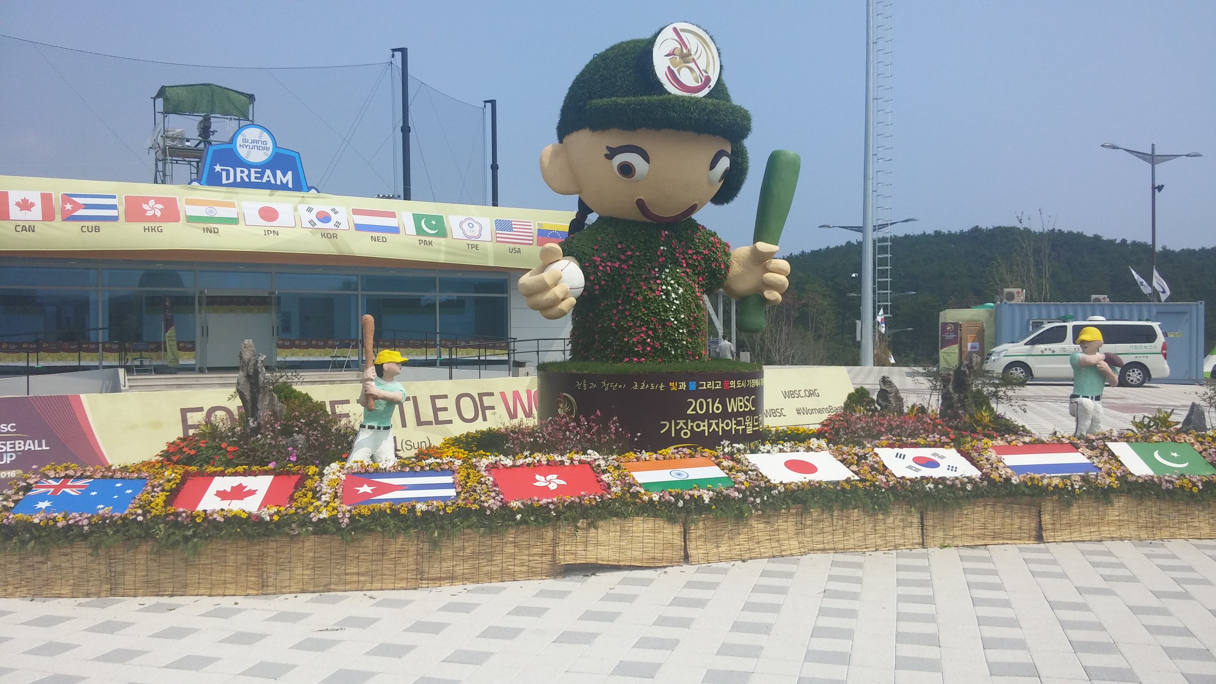 Plastic arts of VII Women's Baseball World Cup